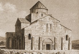 An engraving from the 1840s of the 5th century Armenian Basilica of Tekor, now in the town of Digor in Eastern Turkey.